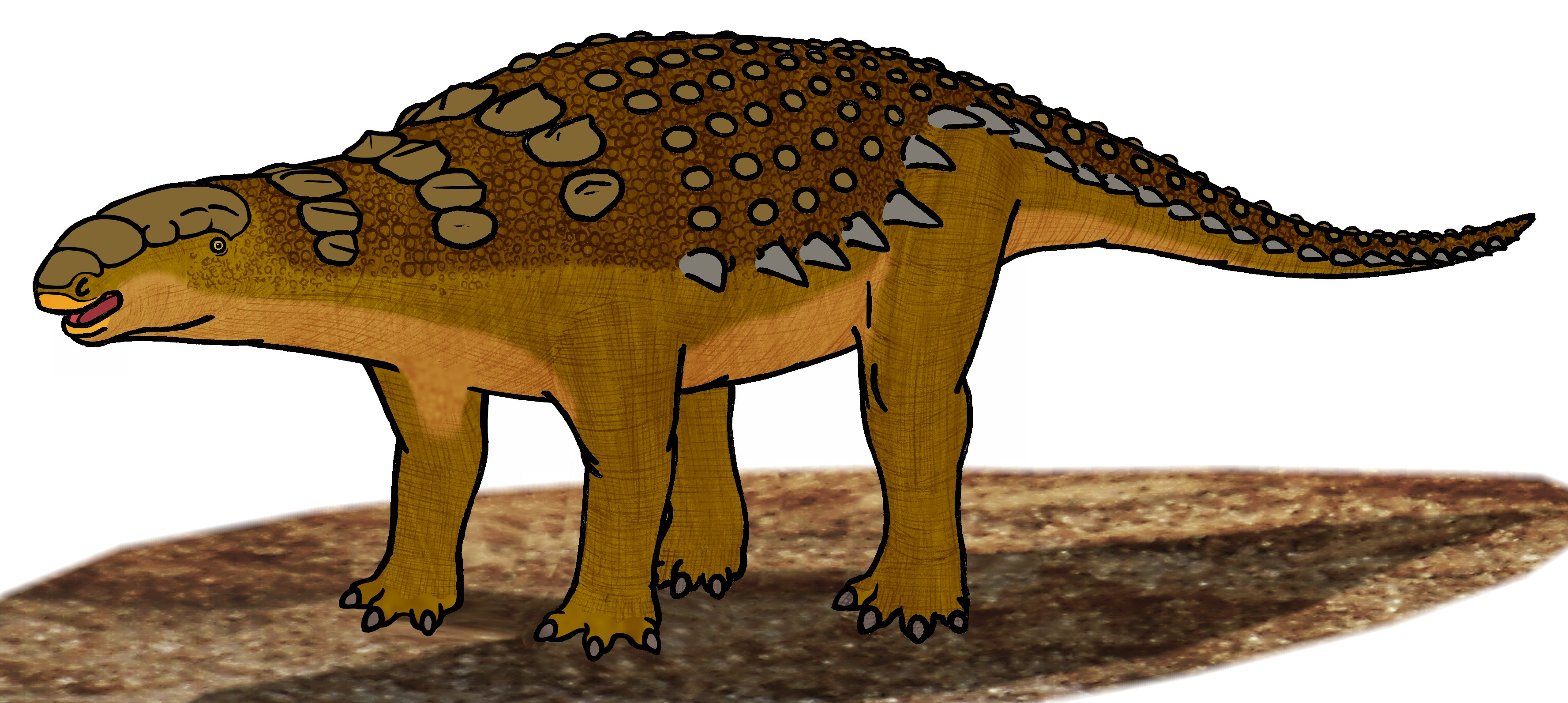 Illustration of the ankylosaurian dinosaur Panoplosaur. Panoplosaurus was a nodosaurid, related to Animantarx and Edmontonia. They all lived in North America during the late cretaceous period. Unlike other Nodosaurids, Panoplosaurus lacked large spikes on it's neck.[1] It had a horselike head.[2] Ref. ↑ The Complete Dinosaur by J.O Farlow & M.K Brett-Surman (1999), p. 315. ↑ WitmerLab Collections: Panoplosaurus.